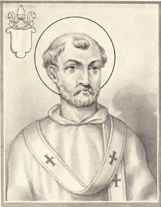 Illustration of Pope Anterus